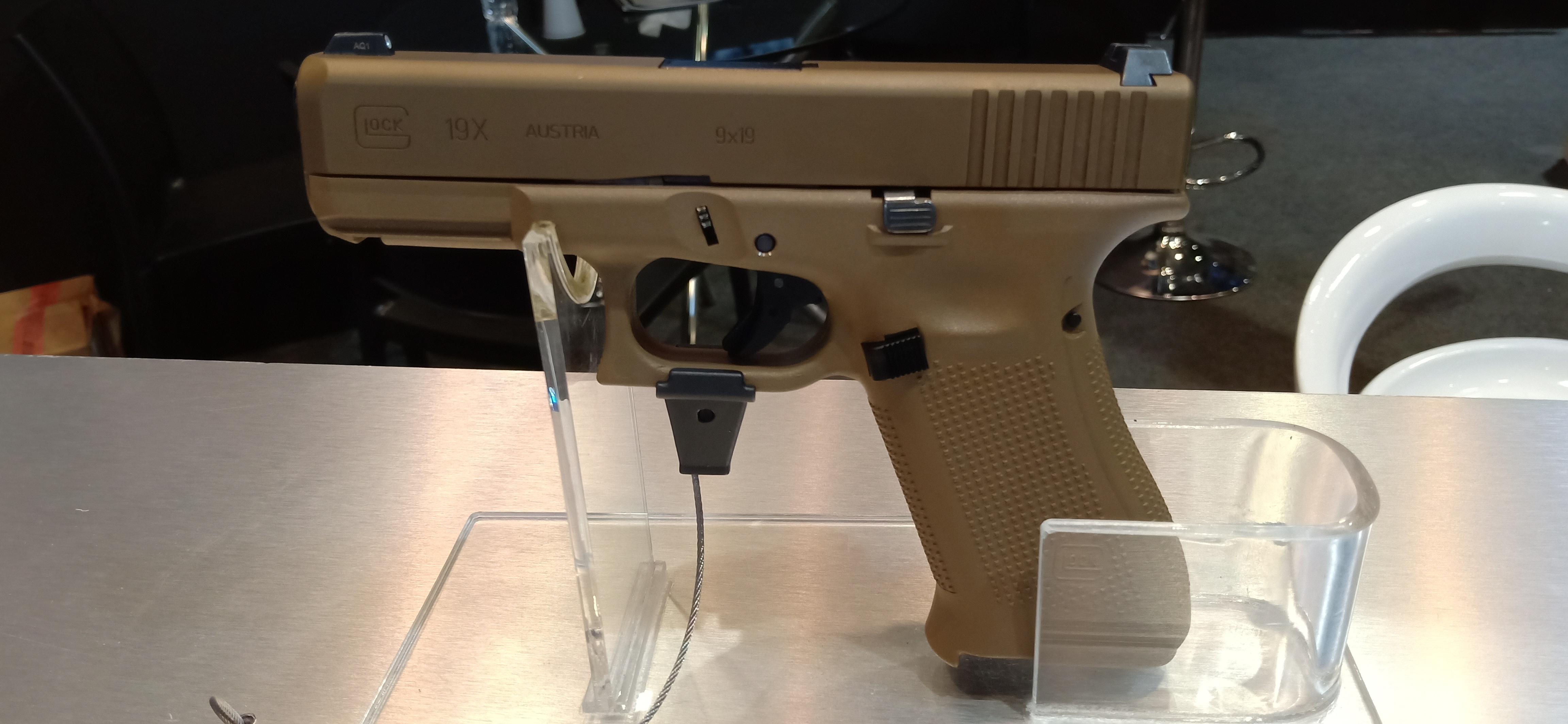 The Glock 19X Pistol made by the Austrian company Glock. Photo taken during the 2018 Asian Defence and Security (ADAS) Trade Show at the World Trade Center in Pasay, Metro Manila.